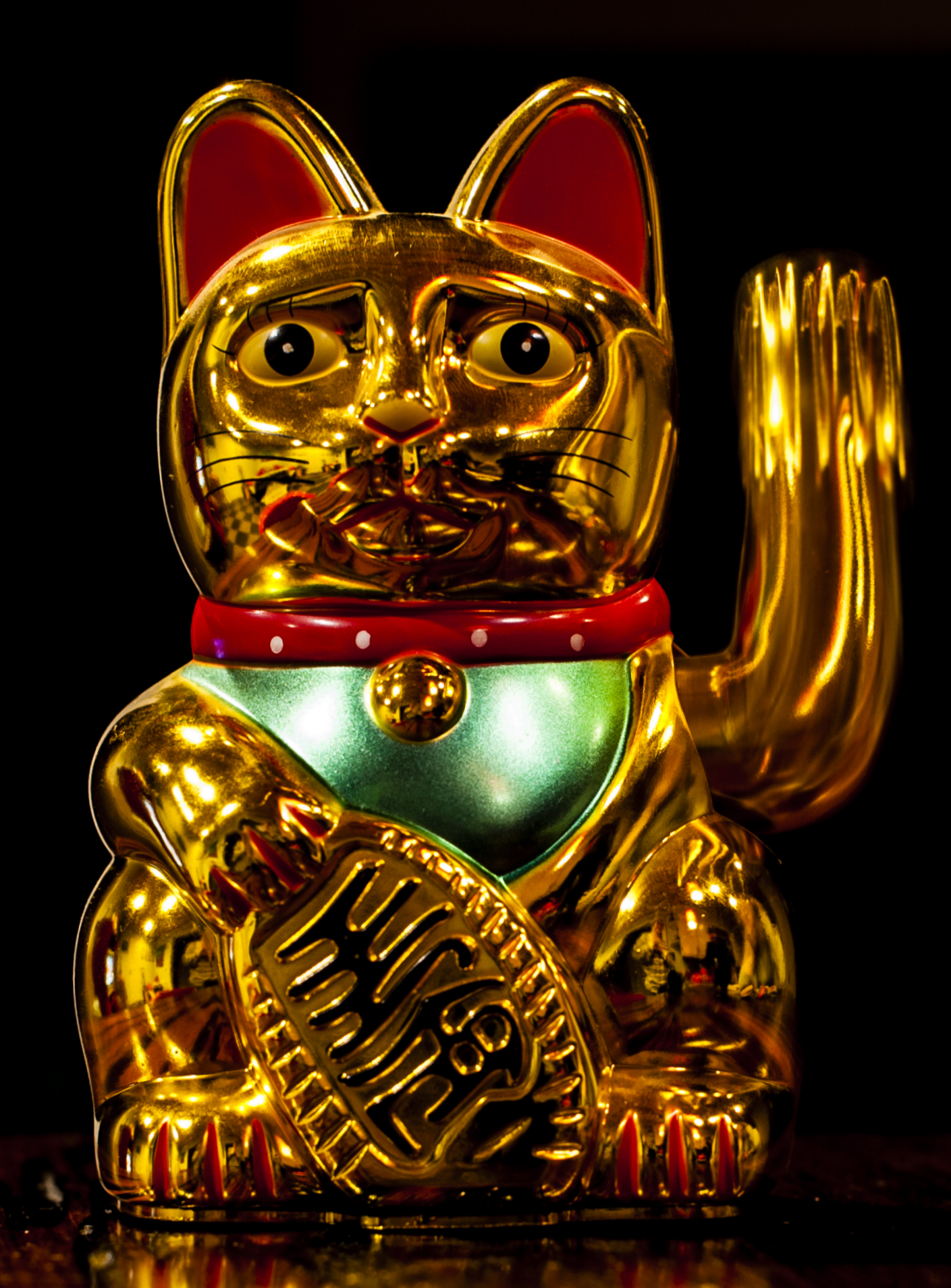 Long-exposure photograph of a fortune cat with a moving arm.